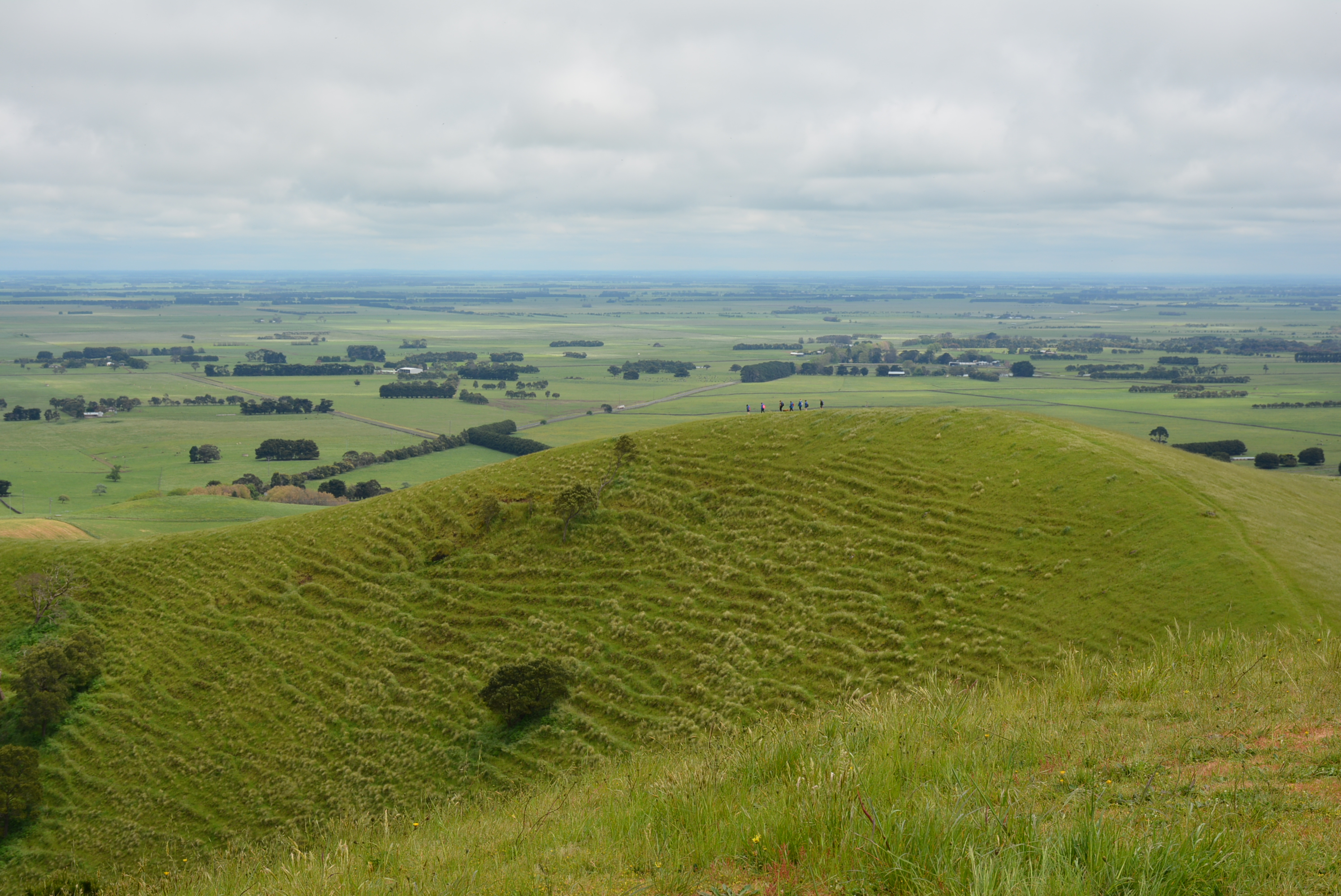 A group of walkers on the narrow path around the crater viewed from the summit of Mount Noorat, Victoria, Australia